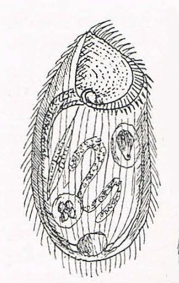 Climacostomum virens, as depicted by Alfred Kahl in Wimpertiere oder Ciliata